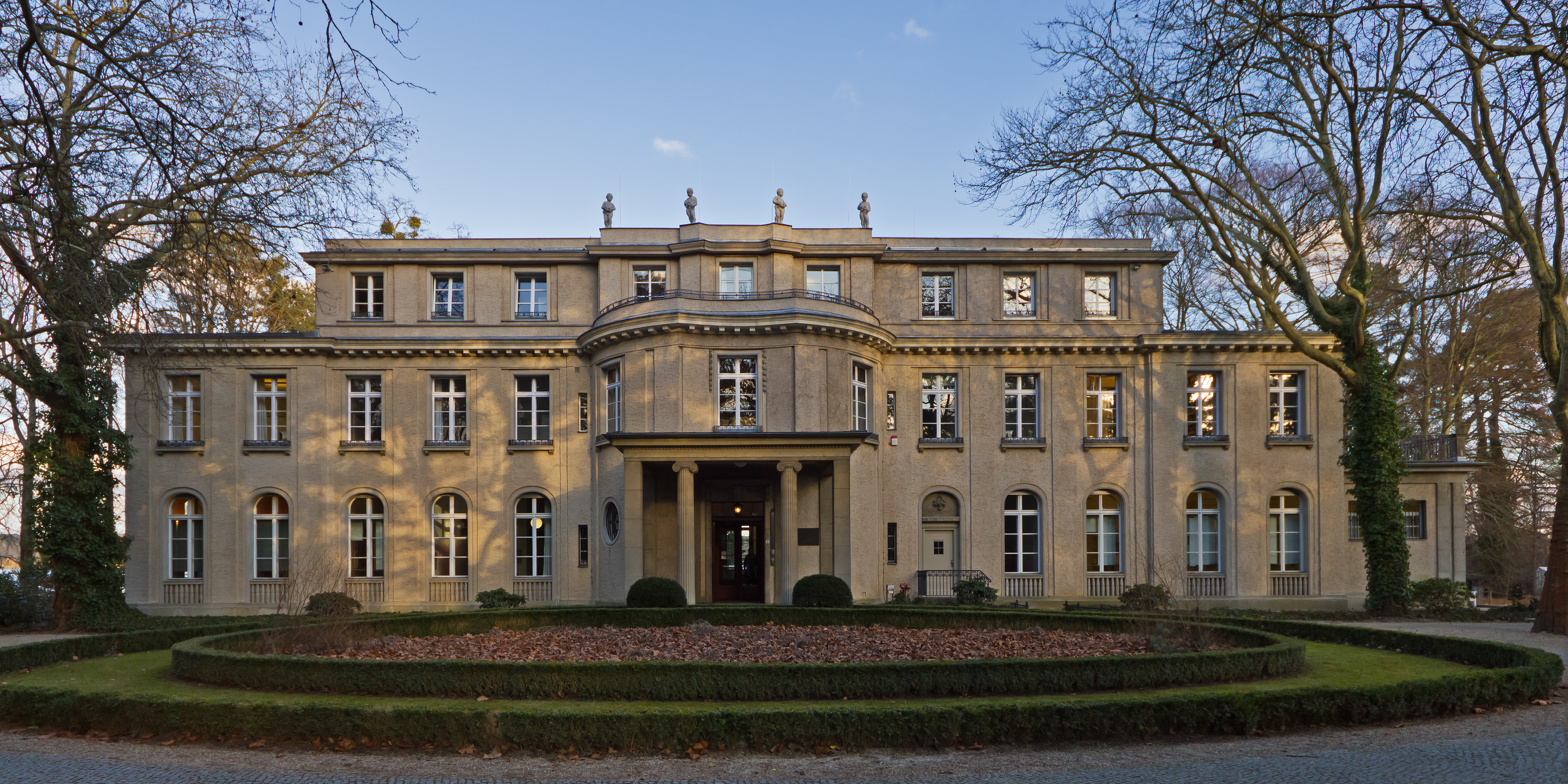 Manor in Berlin-Wannsee, Germany - also known as the House of the Wannsee Conference